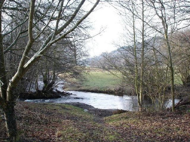 Afon Aled. The river Aled through the village of Bryn Rhyd yr Arian